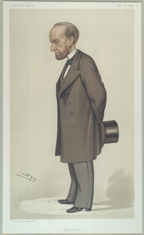 Statesmen No.440: Caricature of Mr William Torrens McCullagh Torrens MP. Caption reads: "Finsbury"